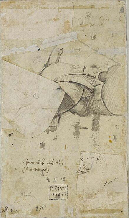 Reverse of a two-sided drawing. For the front see File:After Jheronimus Bosch 029 recto 01.jpg.